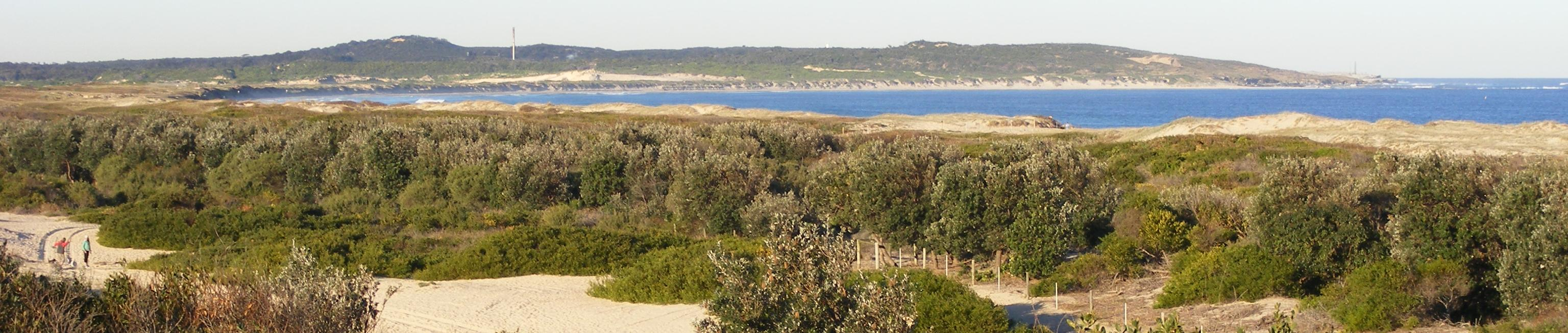 Wanda sand hills looking out towards the Kurnell Peninsula, Australia.